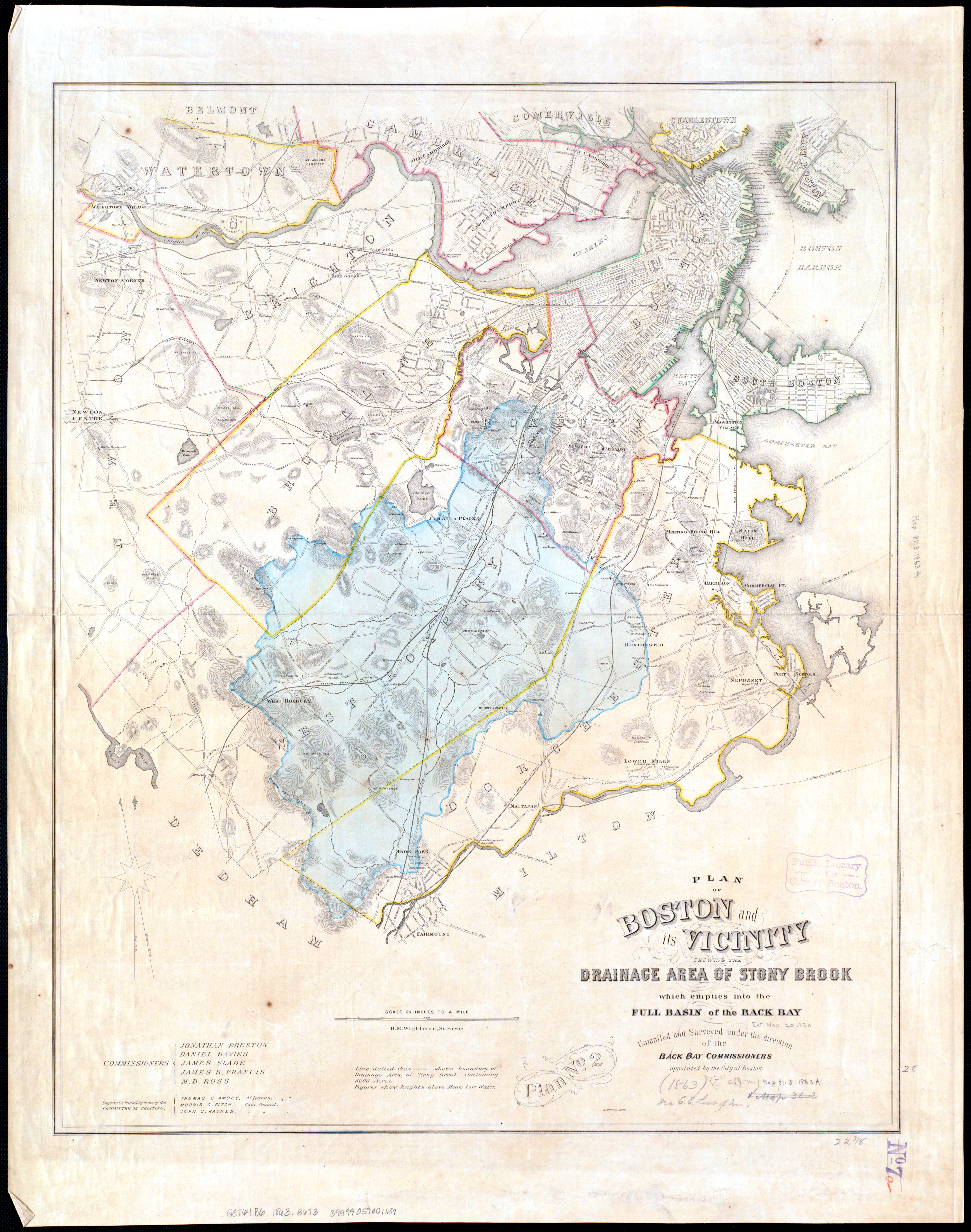 An 1863 map of the Stony Brook drainage basin. Over the next century, most of the Stony Brook and its tributaries were placed in culverts.